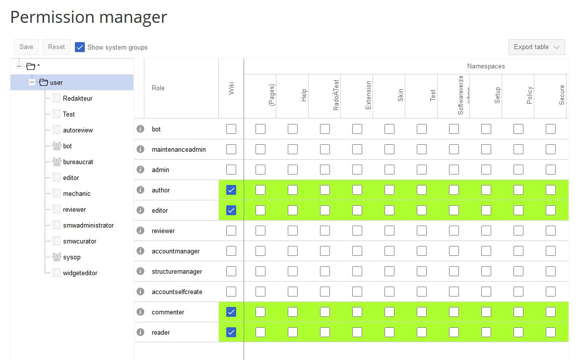 Grafical interface to set permissions in BlueSpice MediaWiki (with roles)